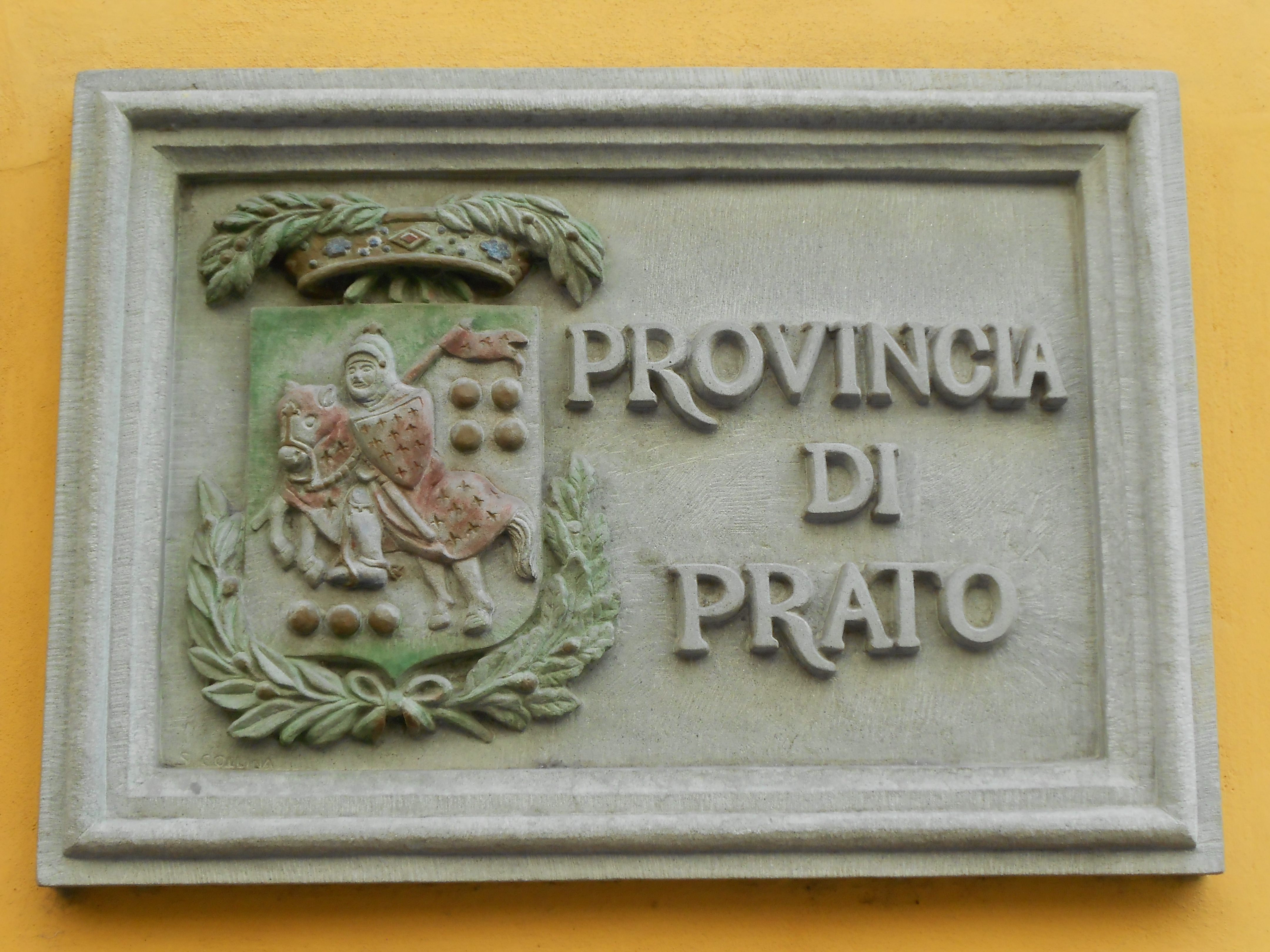 Logo of the Province of Prato as appearing on the facade of an administrative building in Prato, Tuscany, Italy.